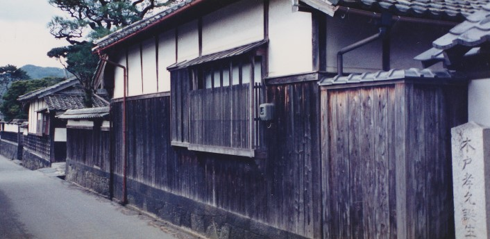 Birthplace of Kido Takayoshi at Hagi